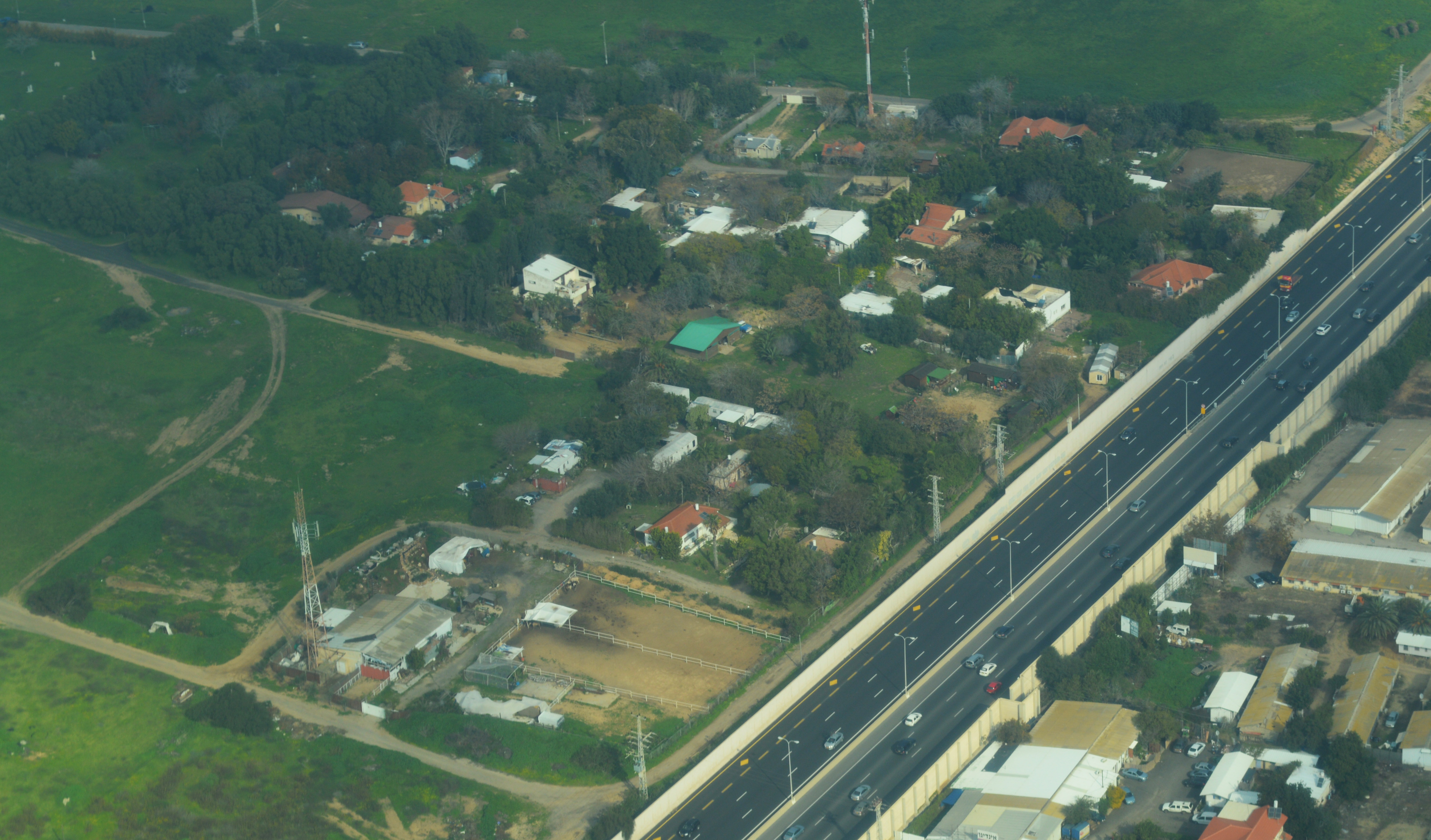 Arsuf Kedem Aerial View